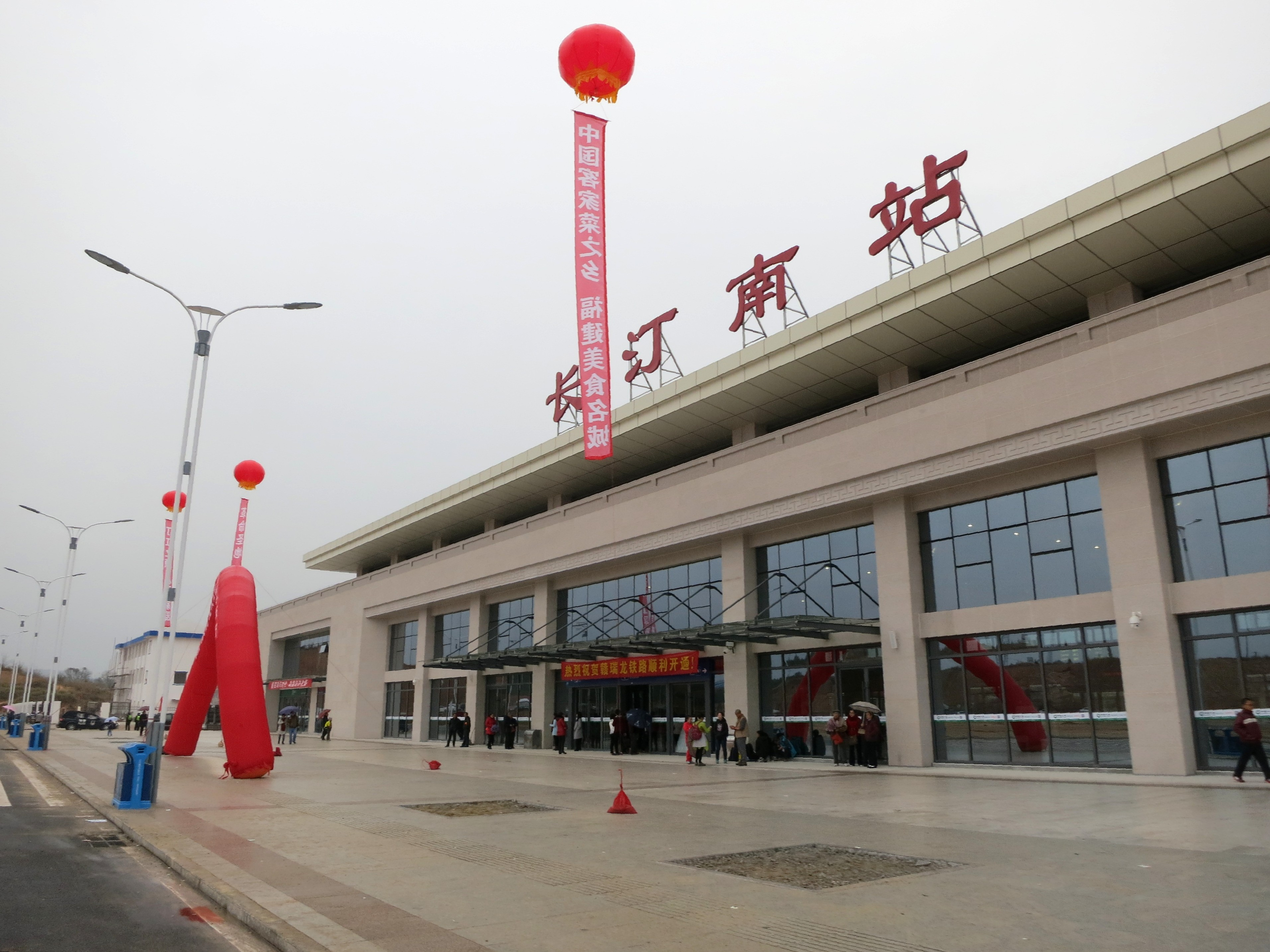 长汀南站 - Changting South Railway Station - 2015.12